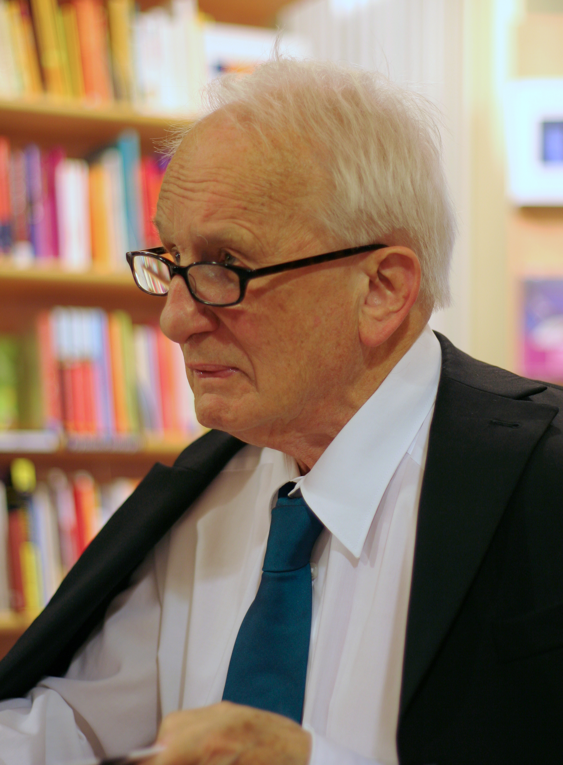 The german playwright Rolf Hochhuth authographs his books in Cologne. Taken in september of 2009.